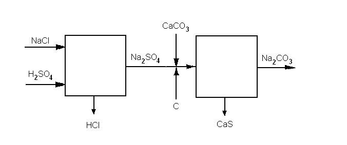 Soda ash producing Process Leblanc's fluxogram.